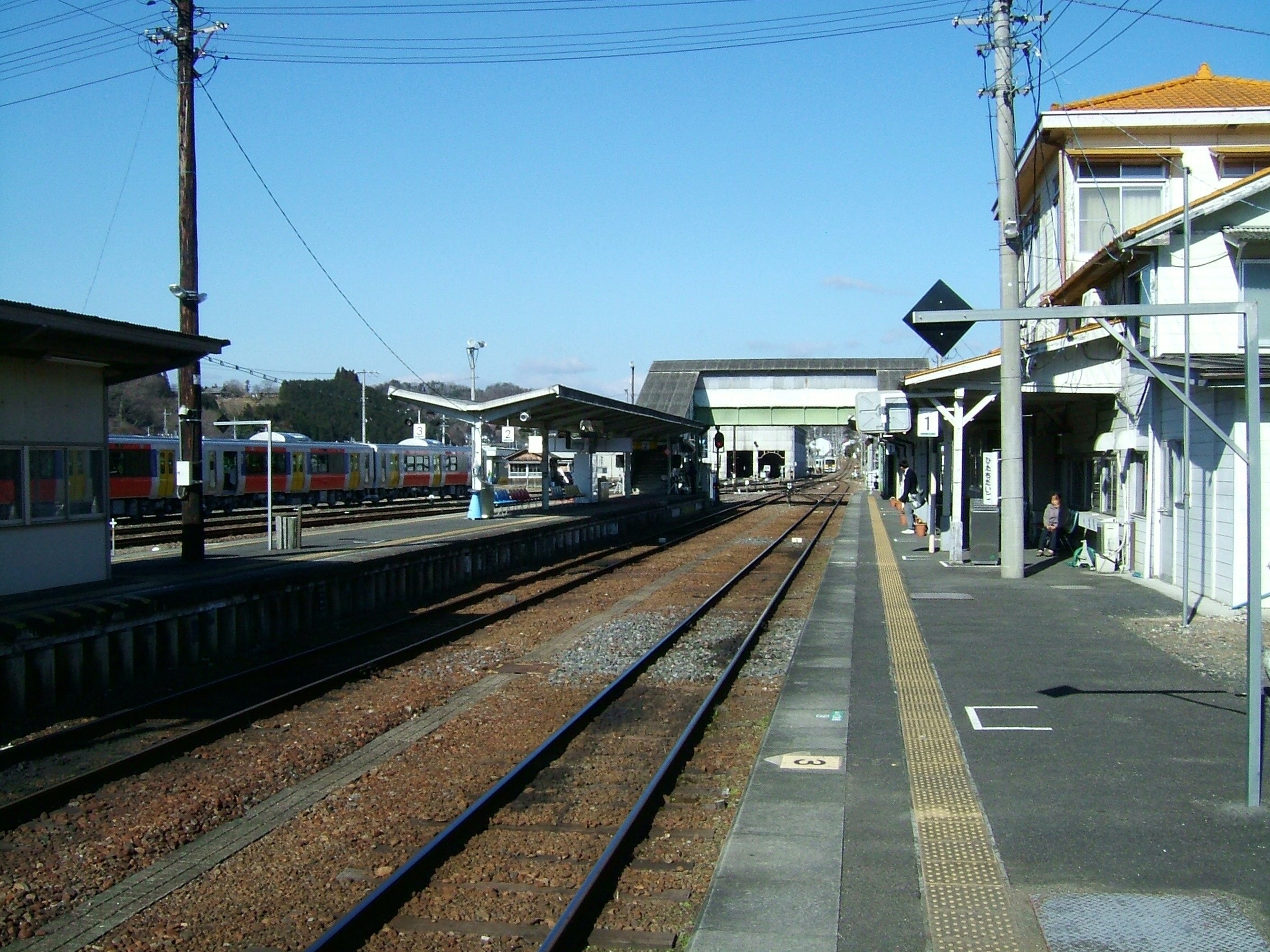 Hitachi-Daigo Station platform (East Japan Railway Suigun Line)